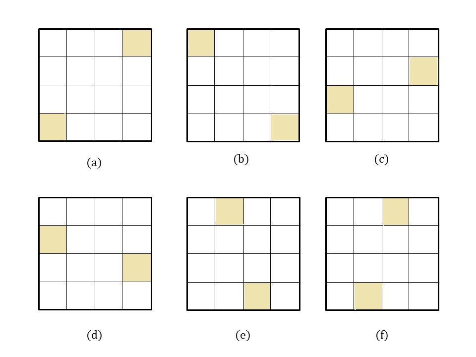 wavelet orientation for 2D CWT